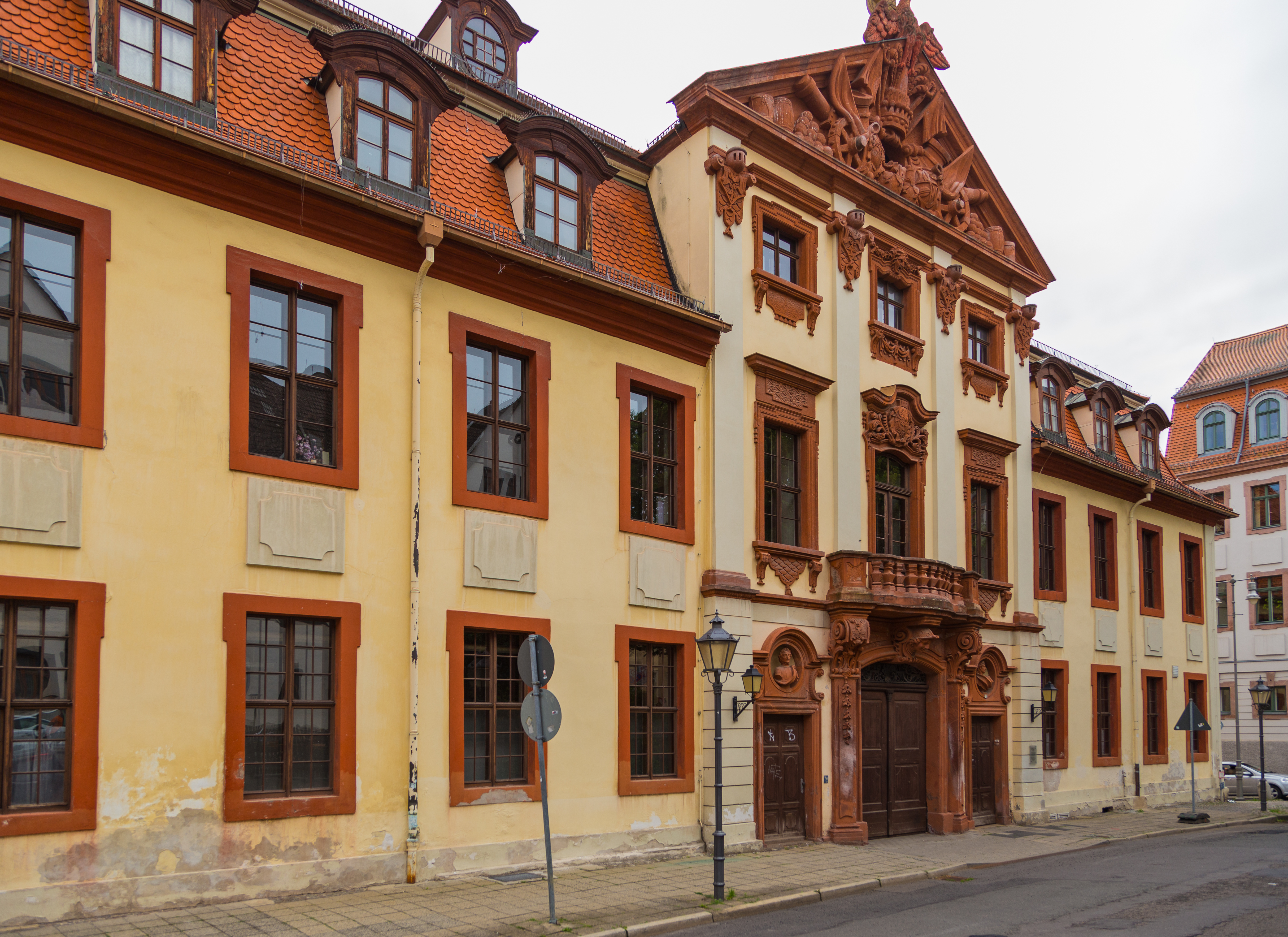 Seckendorff Residence (Seckendorffsches Palais) in Altenburg, Landkreis Altenburger Land, Thuringia, Germany.